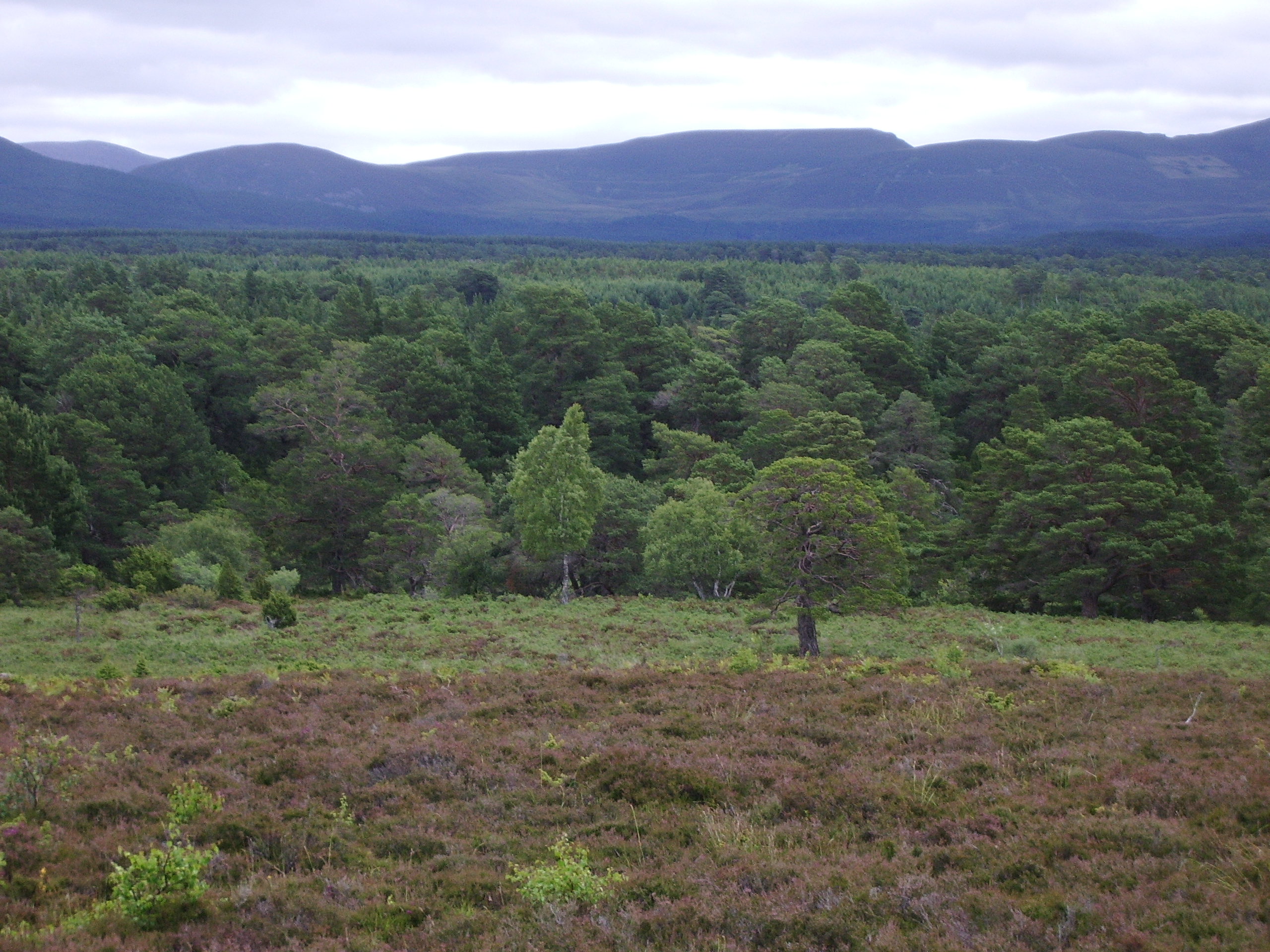 Rothiemurchus Forest, looking south east from grid reference NH917090.